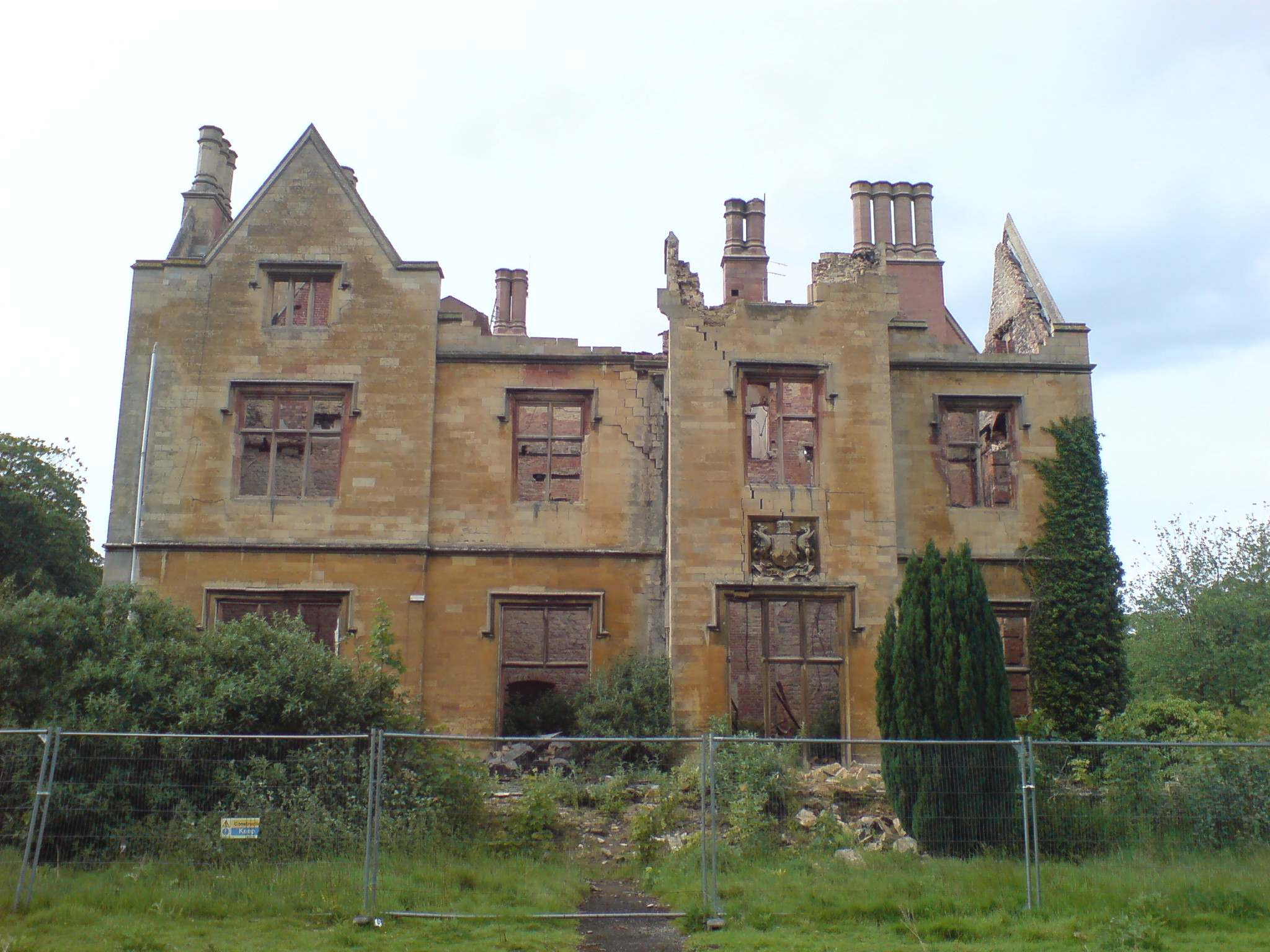 Photo of the remains of Nocton Hall, taken on 26 May 2007